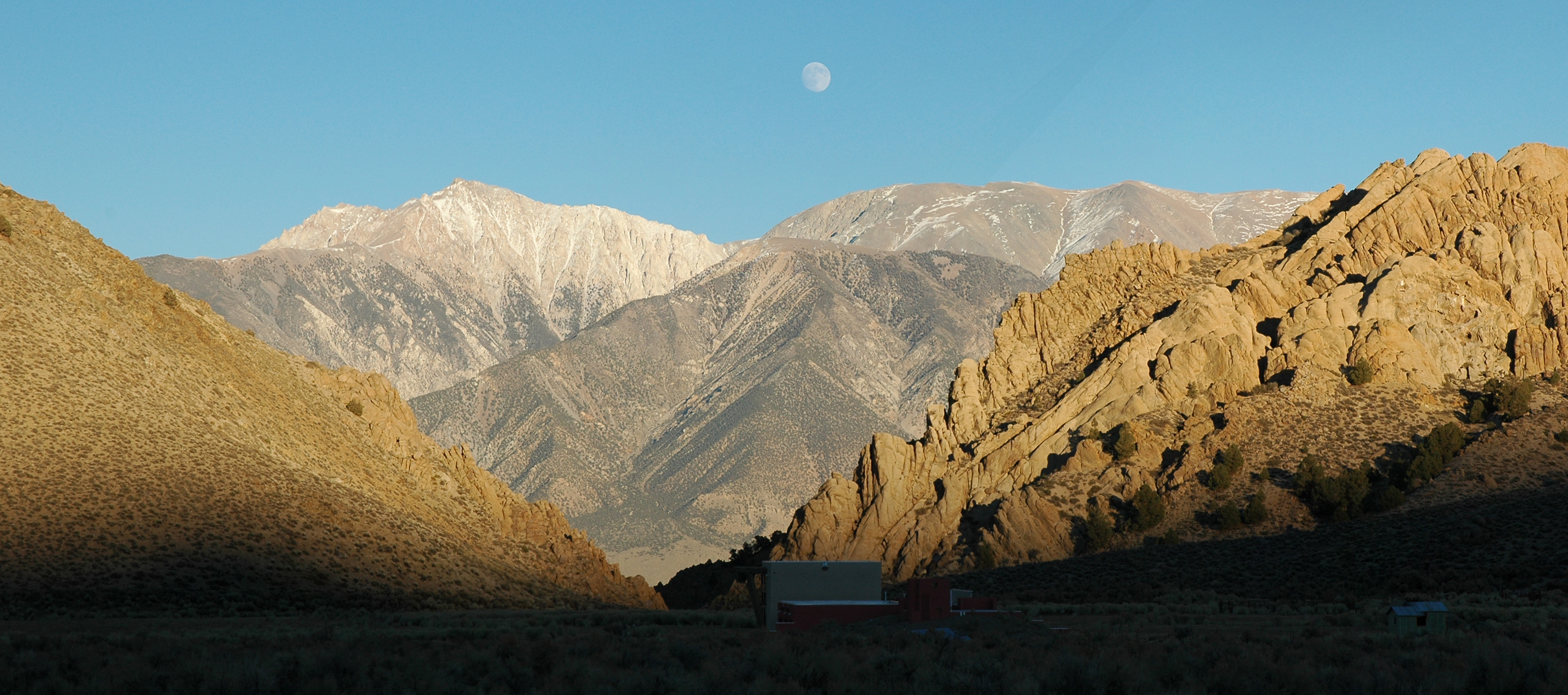 Boundary Peak, Nevada, taken from Rt 120 looking East. Boundary Peak is on the left